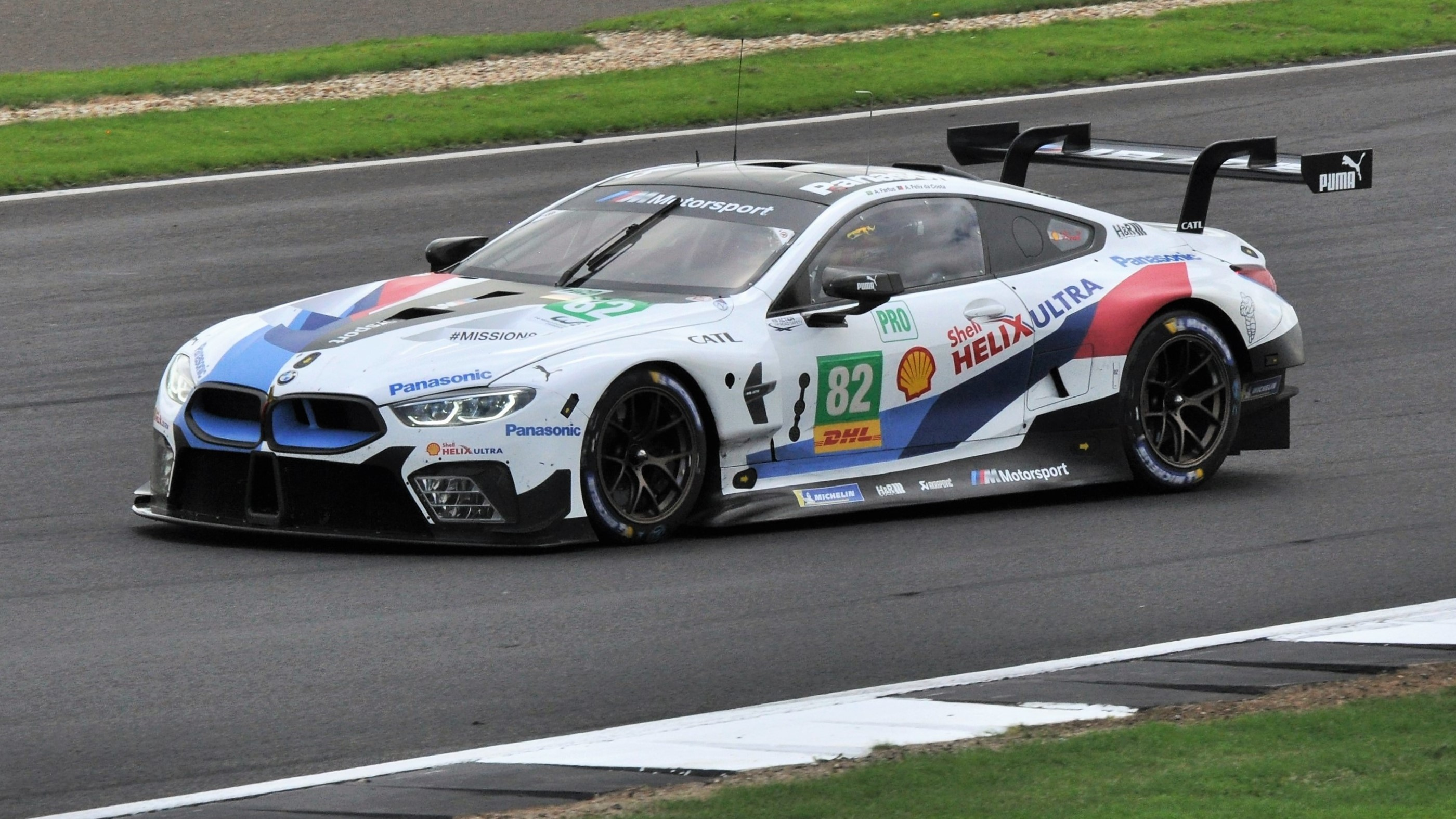 Portuguese driver António Félix da Costa in the number 82 BMW Team MTEK entry, at Village corner during the 2018 6 Hours of Silverstone race. Félix da Costa and his co-driver, Brazilian driver Augusto Farfus, were running in the LMGTE Pro class but retired from the race after the fourth hour.